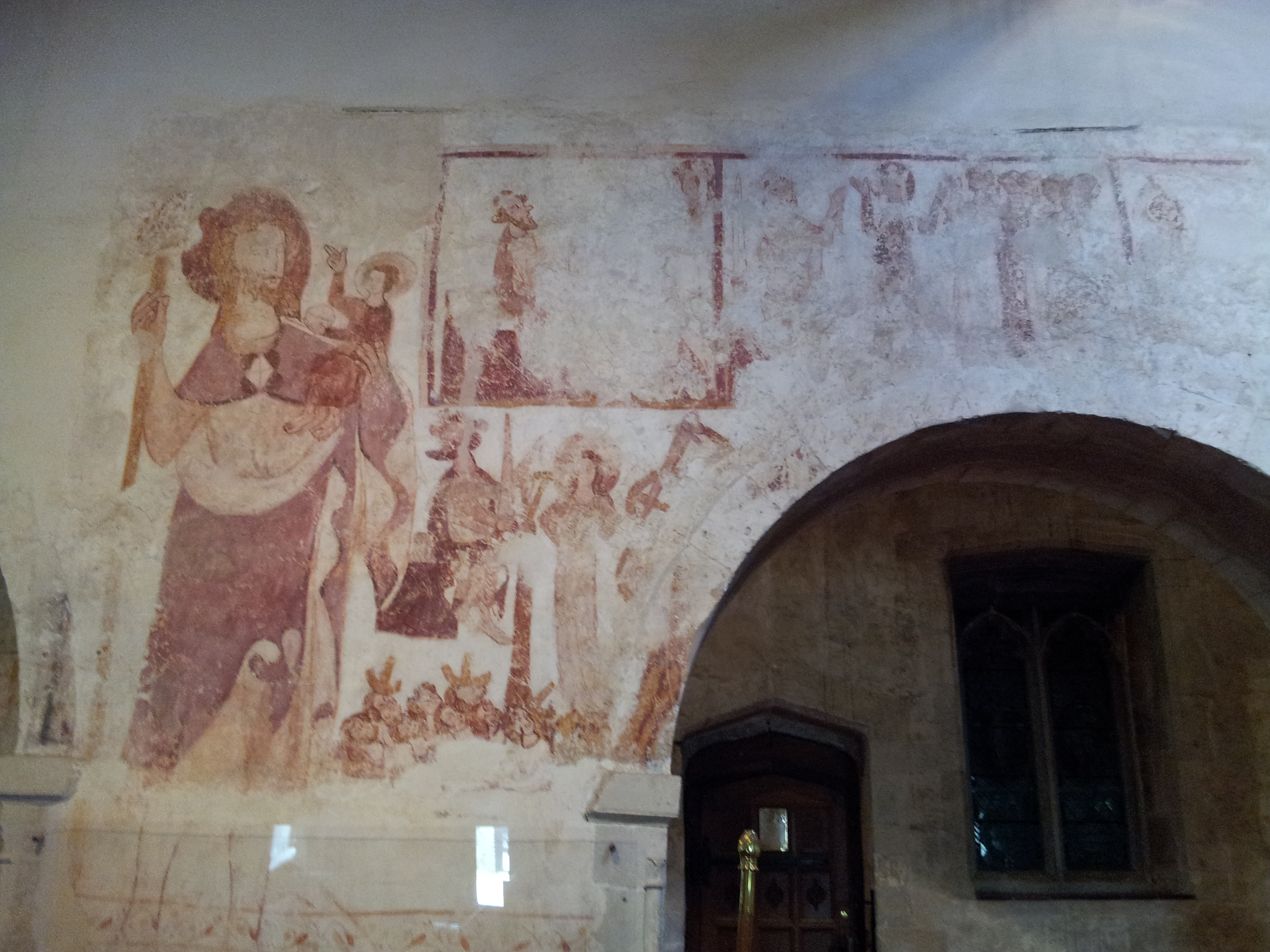 13th-century wall paintings, St John the Baptist parish church, Little Missenden, Buckinghamshire. The figure on the left is St Christopher carrying Jesus across a river.